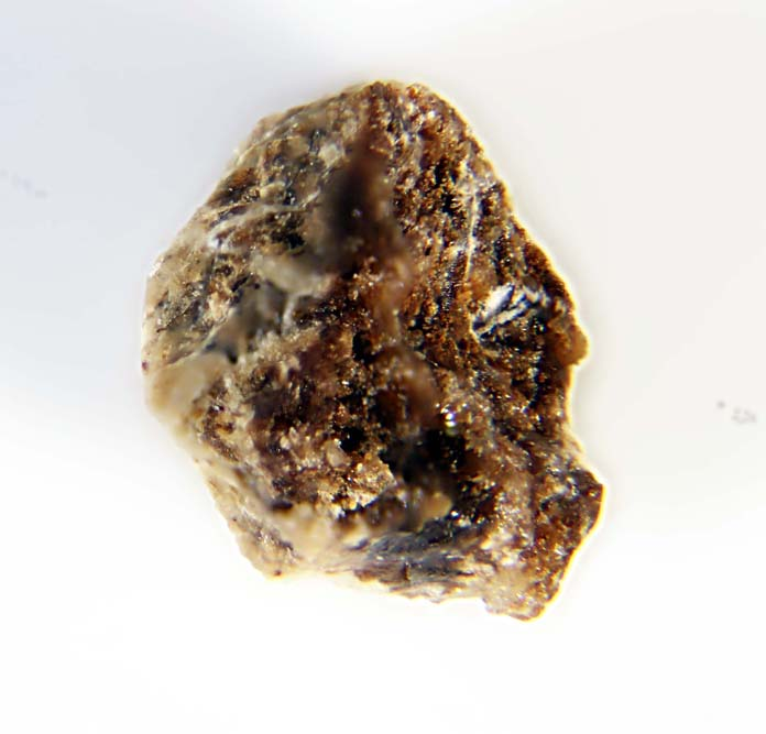 Buff to tan colored almost brown biphosphammite crystals associated to white archerite from the type locality in Australia: Murra-el-elevyn Cave, Dundas Shire, Western Australia, Australia.